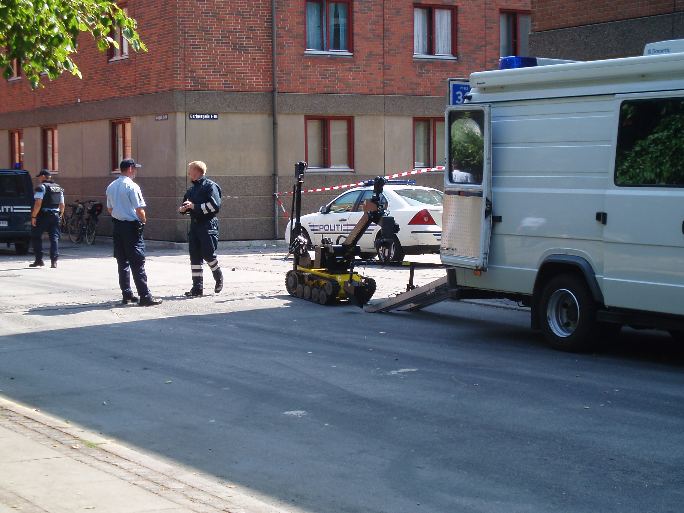 "Rullemarie" EOD robot. The robot is remote controlled from the vehicle and can be equipped with different kind of tools depending on the situation.